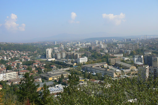 The town of Pernik, Bulgaria, as seen from the medieval fortress Krakra